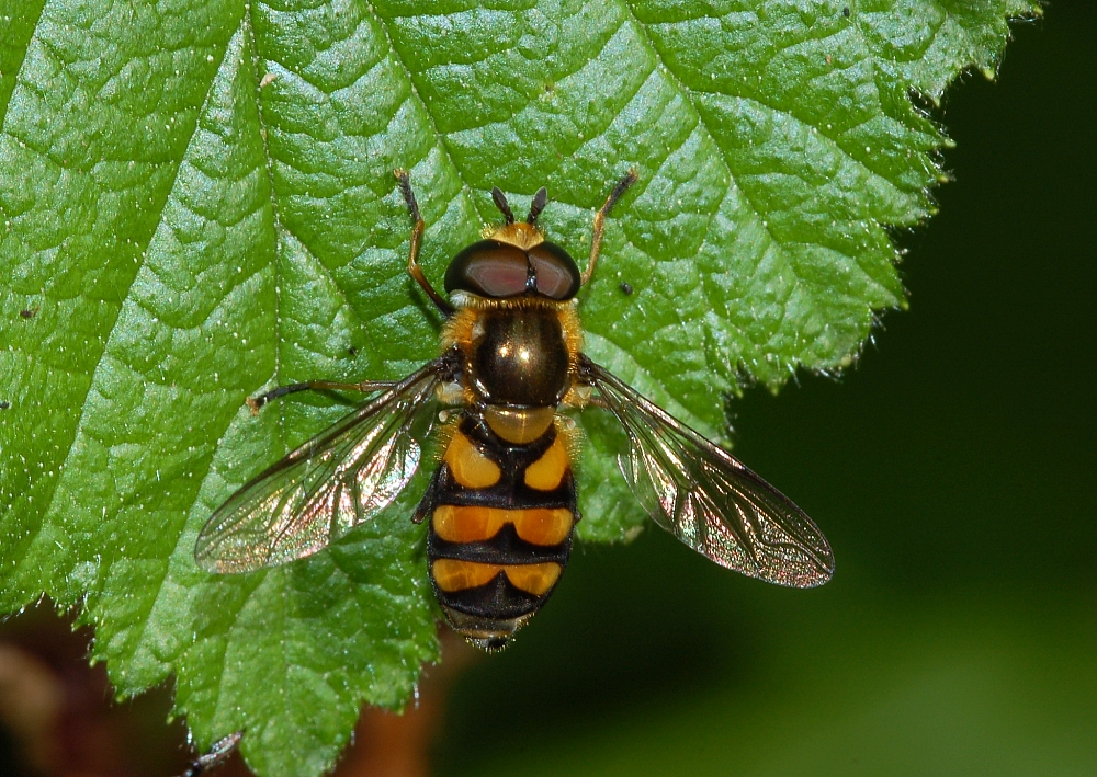 cf. Didea fasciata, Nied, Frankfurt/Main, Germany